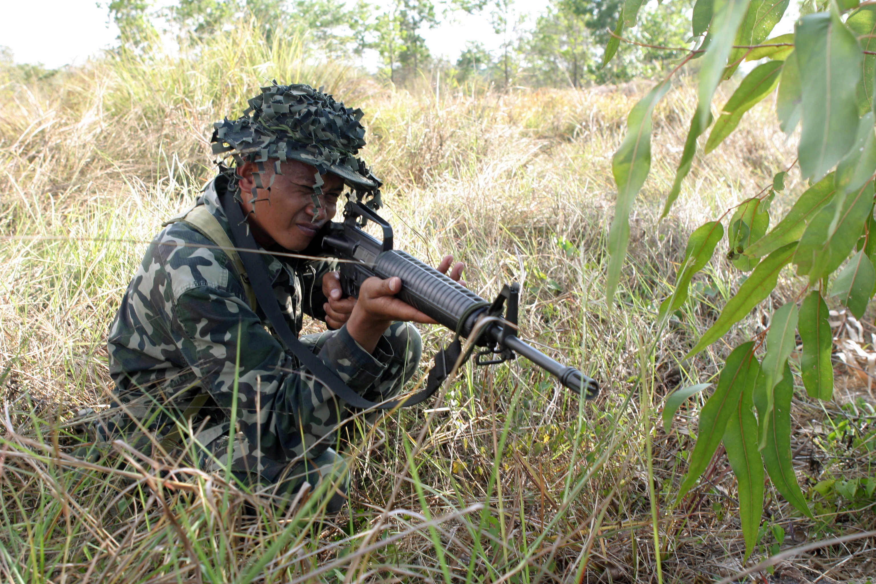 Republic of the Philippines Marines Corporal (CPL) Percival V. Suco, mans a security position armed with a 5.56 mm M16A1 rifle, while participating in tactical personnel and aircraft recovery training at Fort Magsaysay, Philippines, during Exercise BALIKATAN 2004.